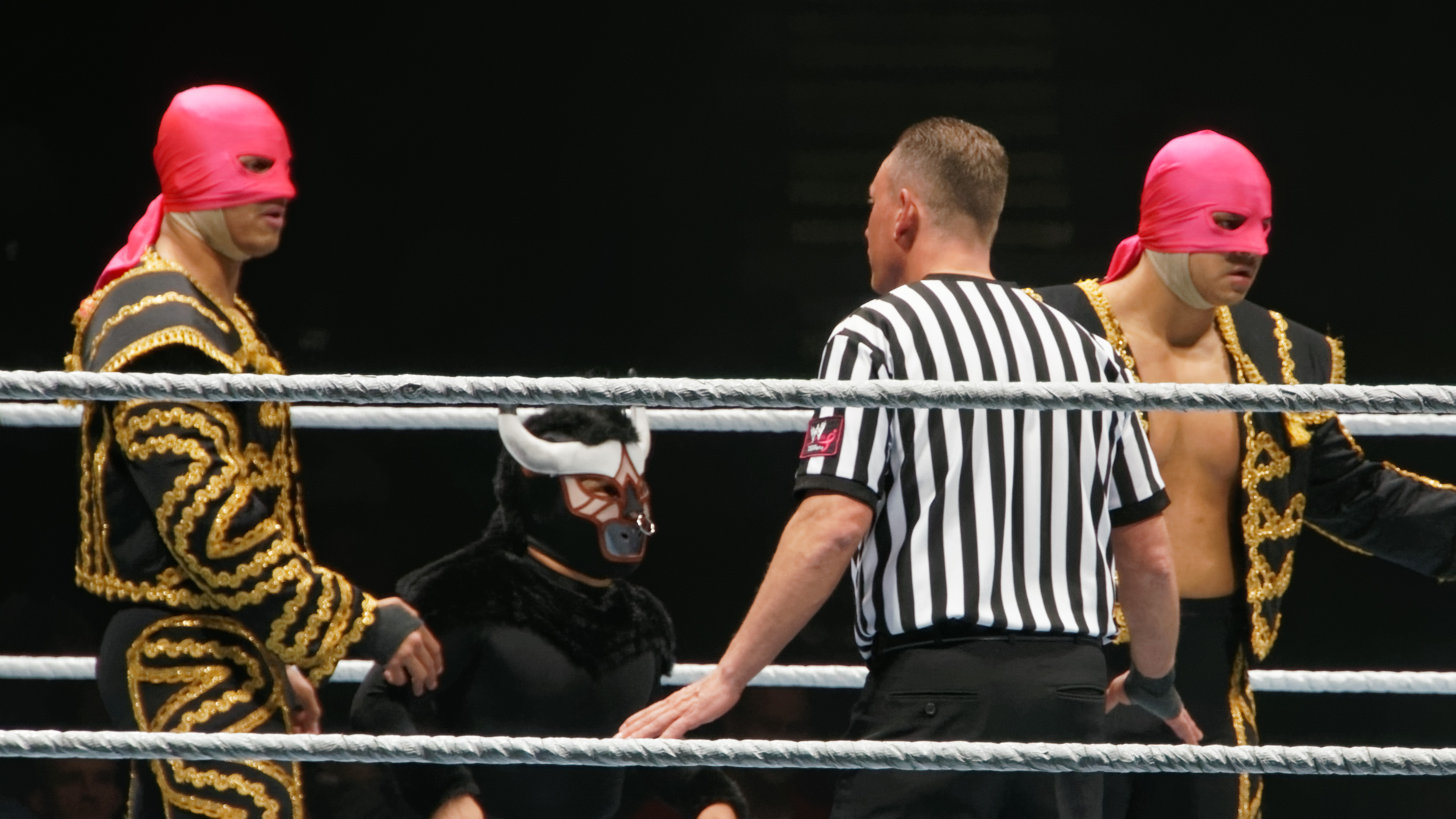 Los Matadores (aka Eddie and Orlando Colon) with El Torito (aka Mascarita Dorada) in the ring on November 8, 2013.